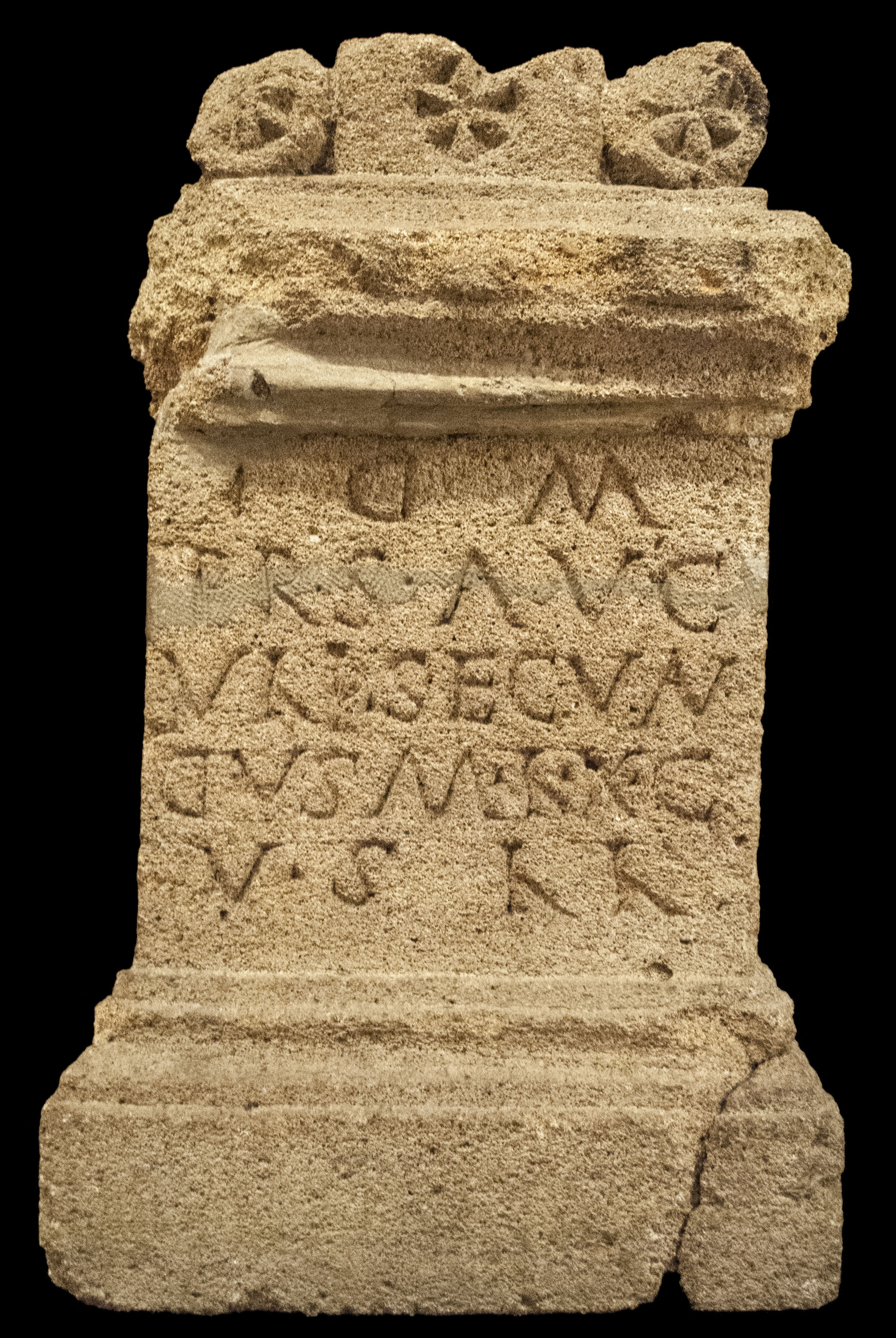 Worshipping altar to Mithras. Vienna 19, Sieveringer Strasse 132, 1896. From an unknown mithraeum on the territory of Vindobona, 2nd-3rd century A.D. Inscription: For the salvation of the emperor, dedicated by the legionary soldier Ulpius Secundus from the 10th Legion.